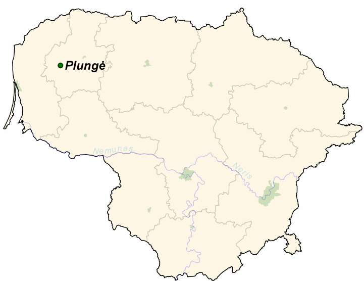 Plungė on the map of Lithuania